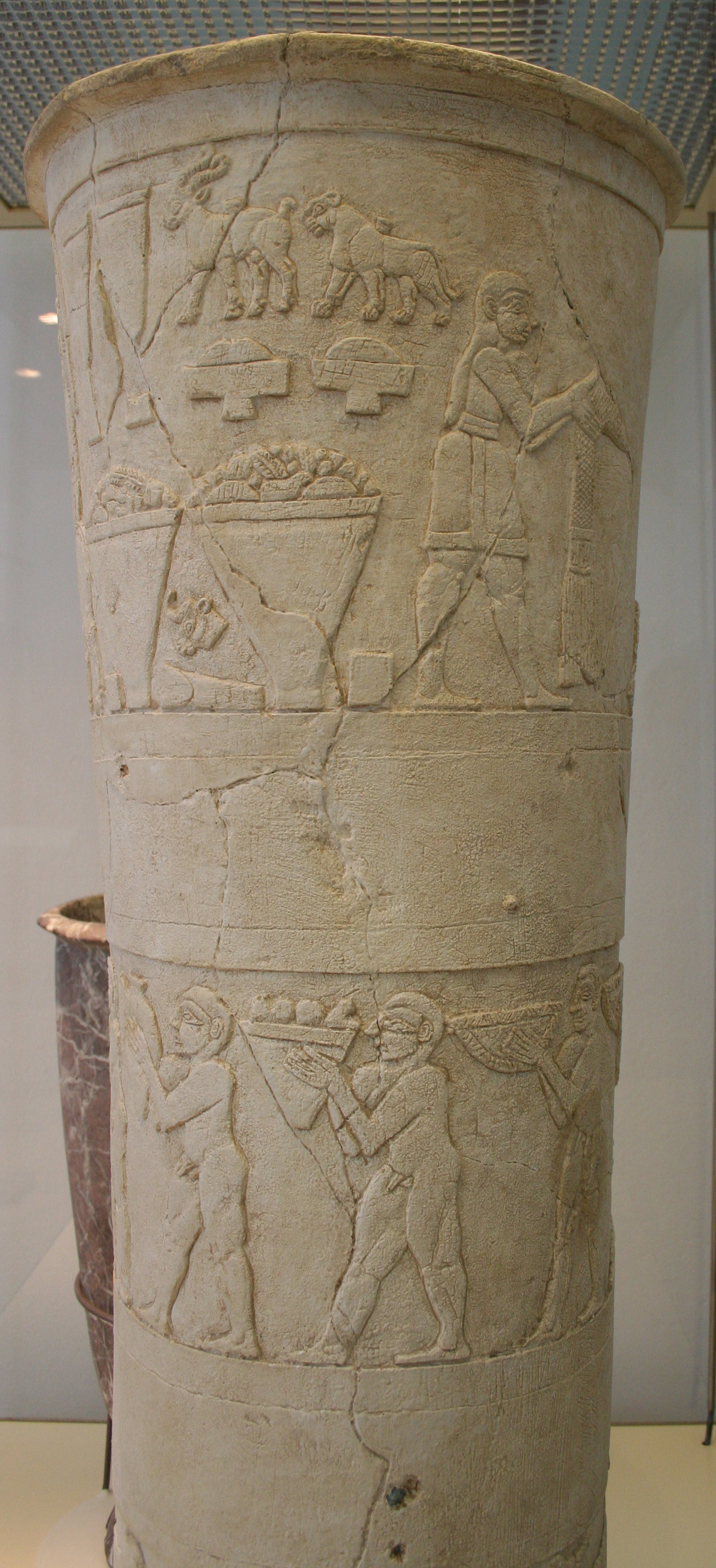 Vorderasiatisches Museum (Near East Museum), Berlin